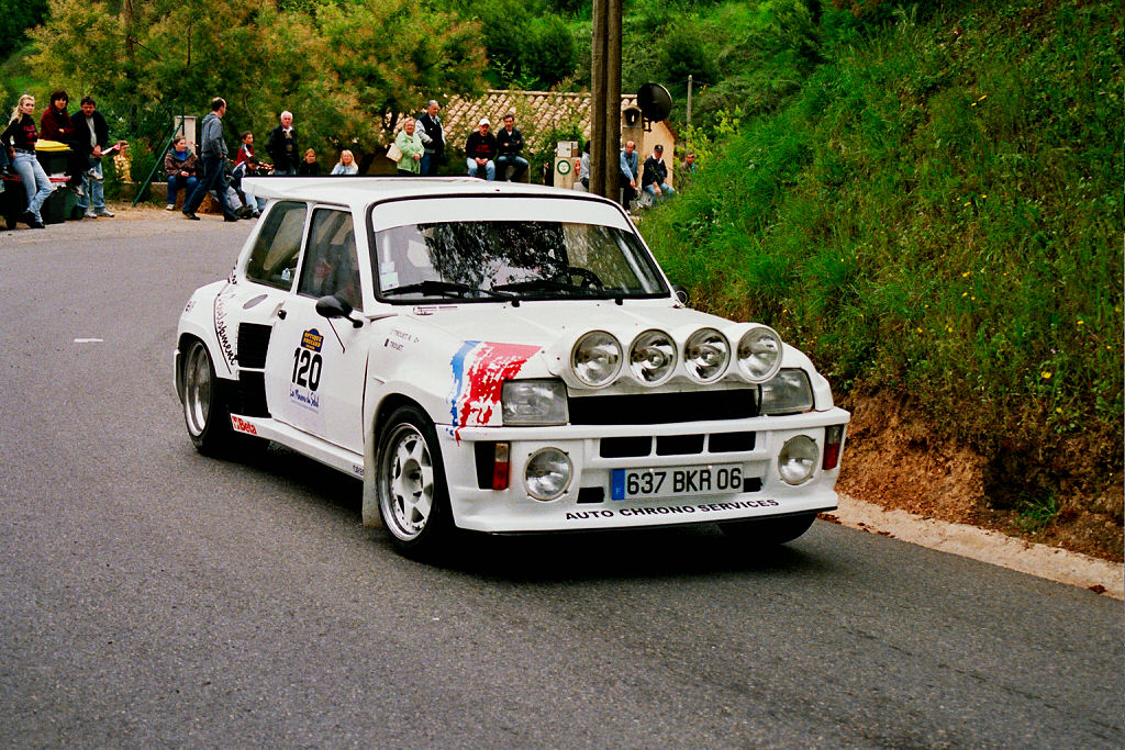 R5 Turbo - Retro-classic Pegomas-Tanneron 2005